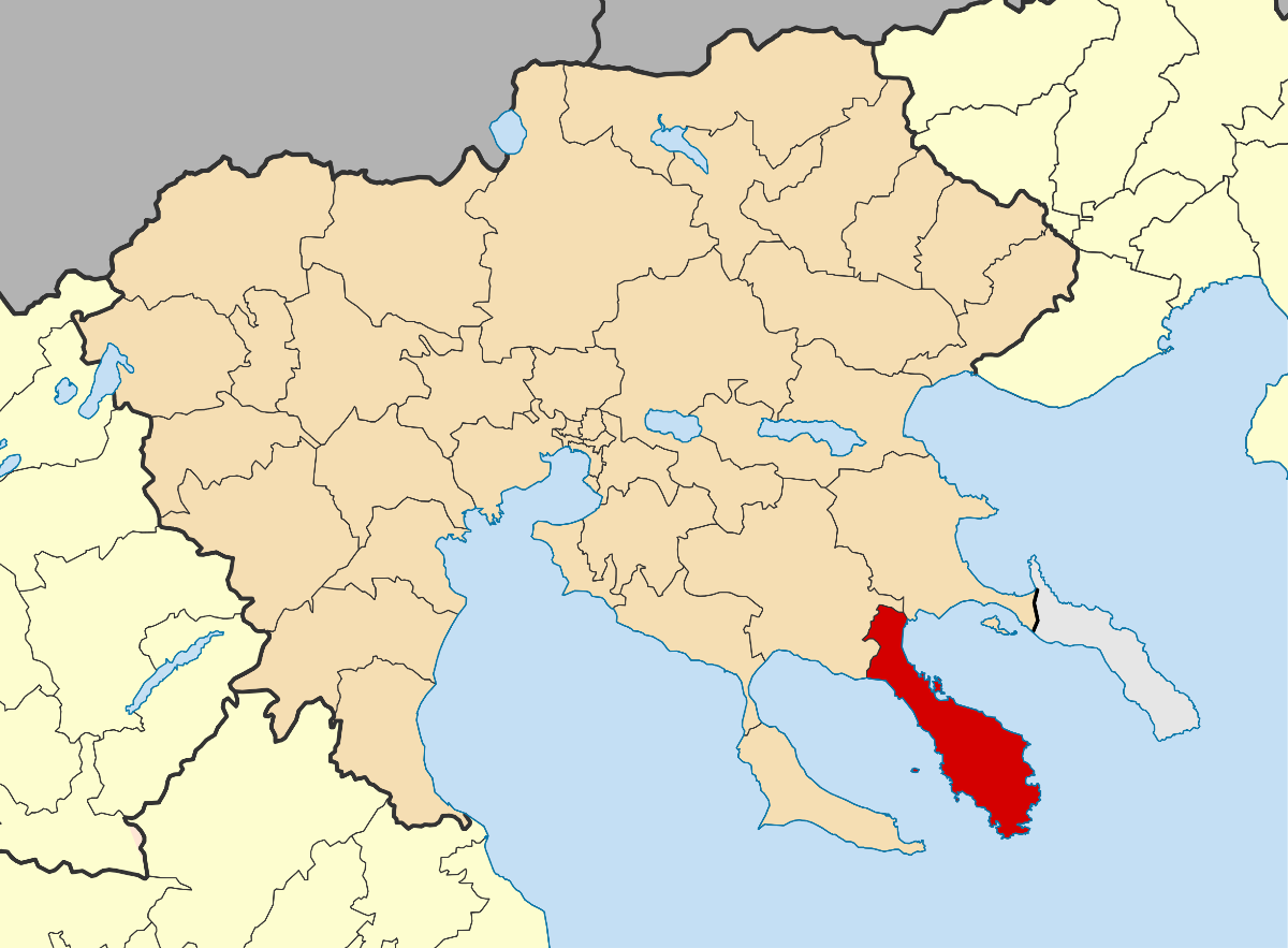 Locator map for Sithonia municipality in Greek region Central Macedonia (2011)